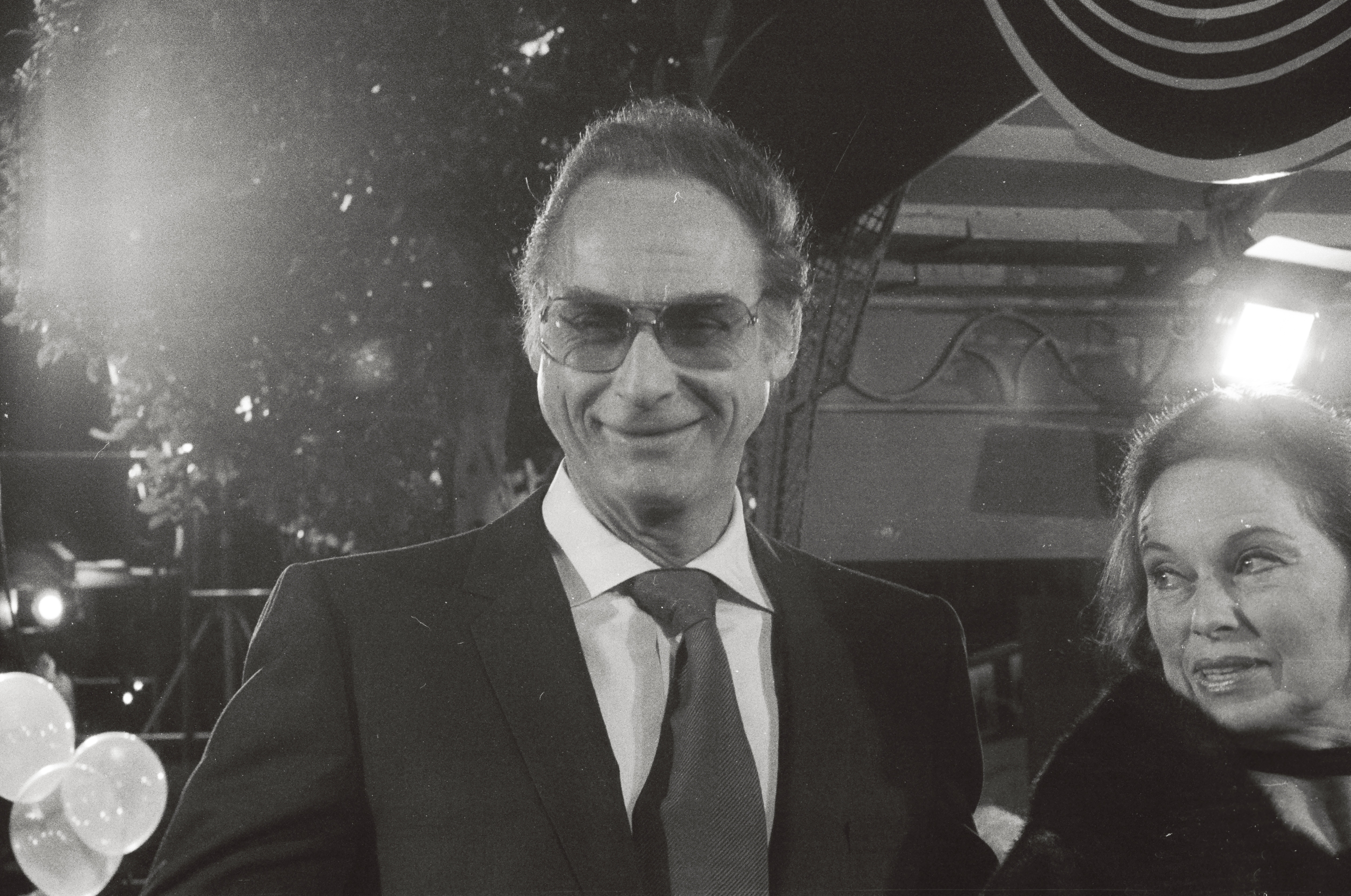 Sid Caesar at the premiere of the movie SEEMS LIKE OLD TIMES 12/10/80